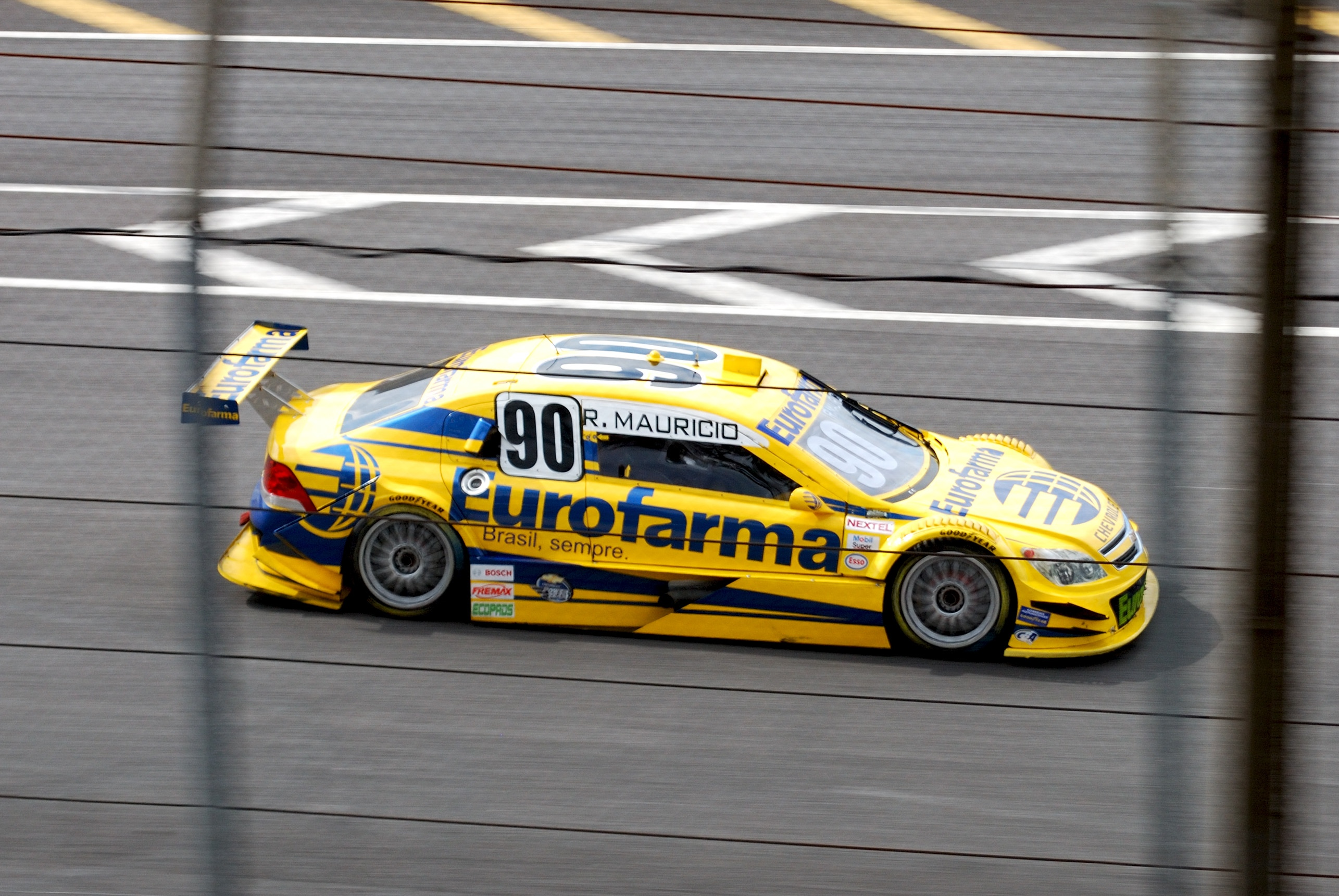 Ricardo Maurício driving for RC Competições in the 2009 Stock Car Brasil season.